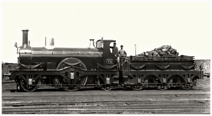 GWR 69 class no. 72. As running between November 1887 (when given a boiler with forward dome) and August 1895 (when rebuilt as a 2-4-0)